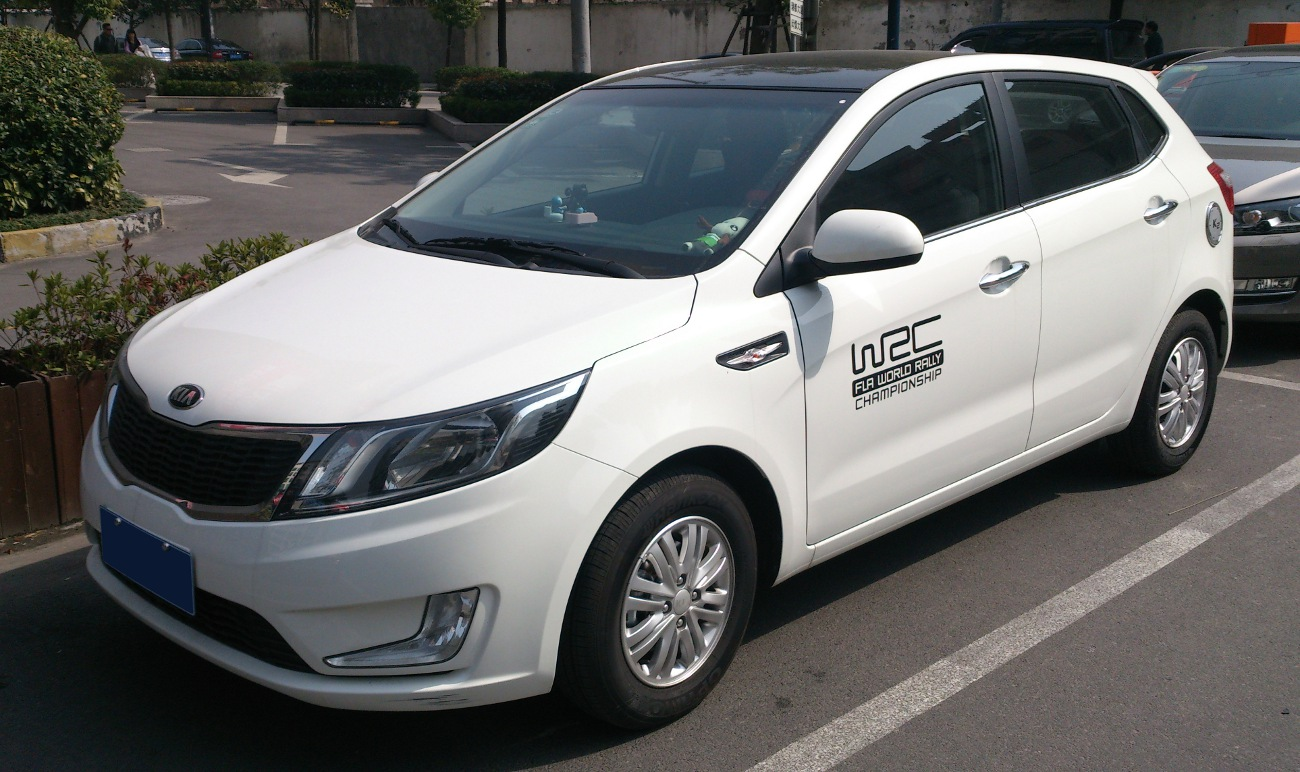 Kia K2 QB hatch photographed in Shanghai, China.